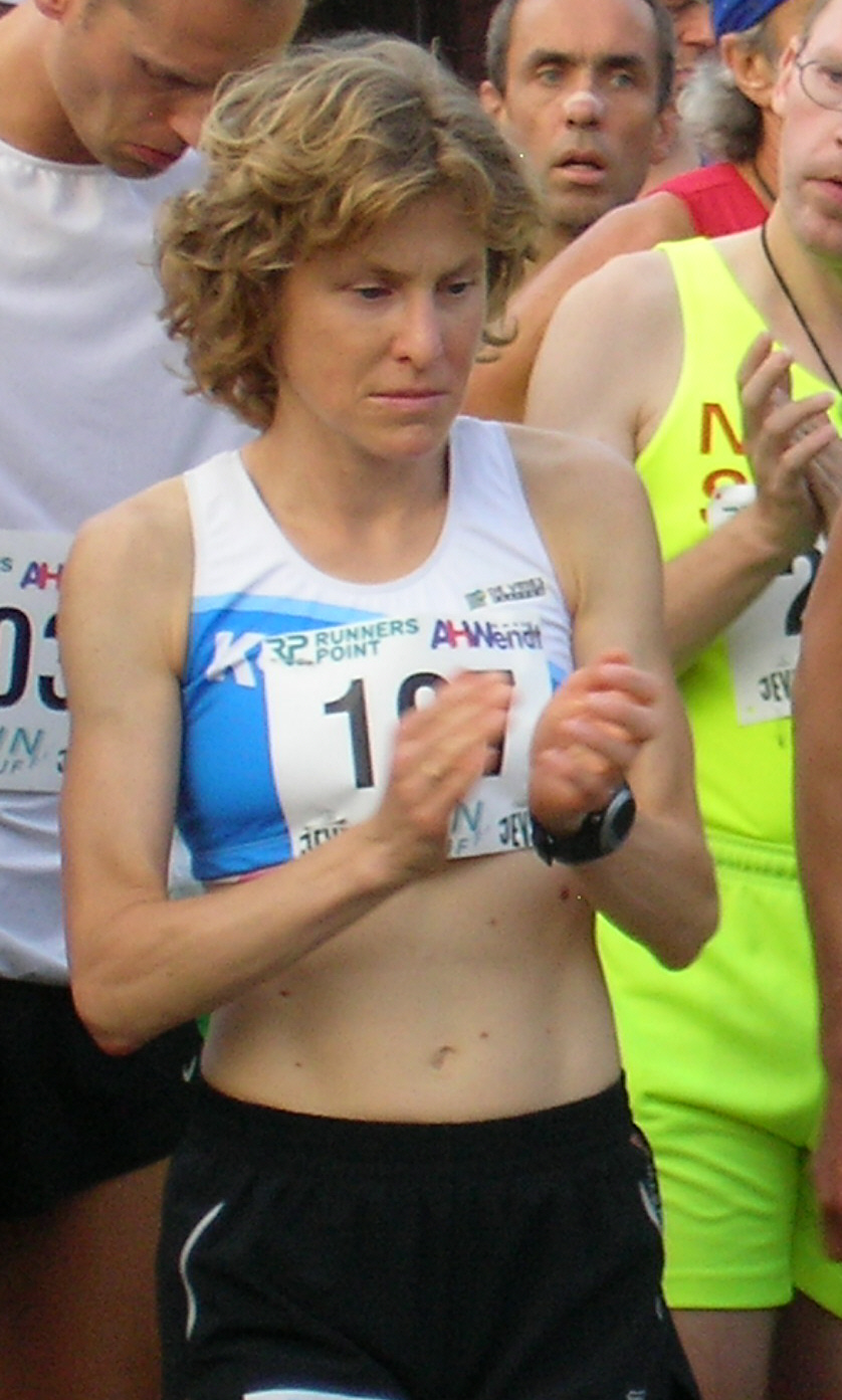 Mariska Kramer-Postma 2011 in Schortens